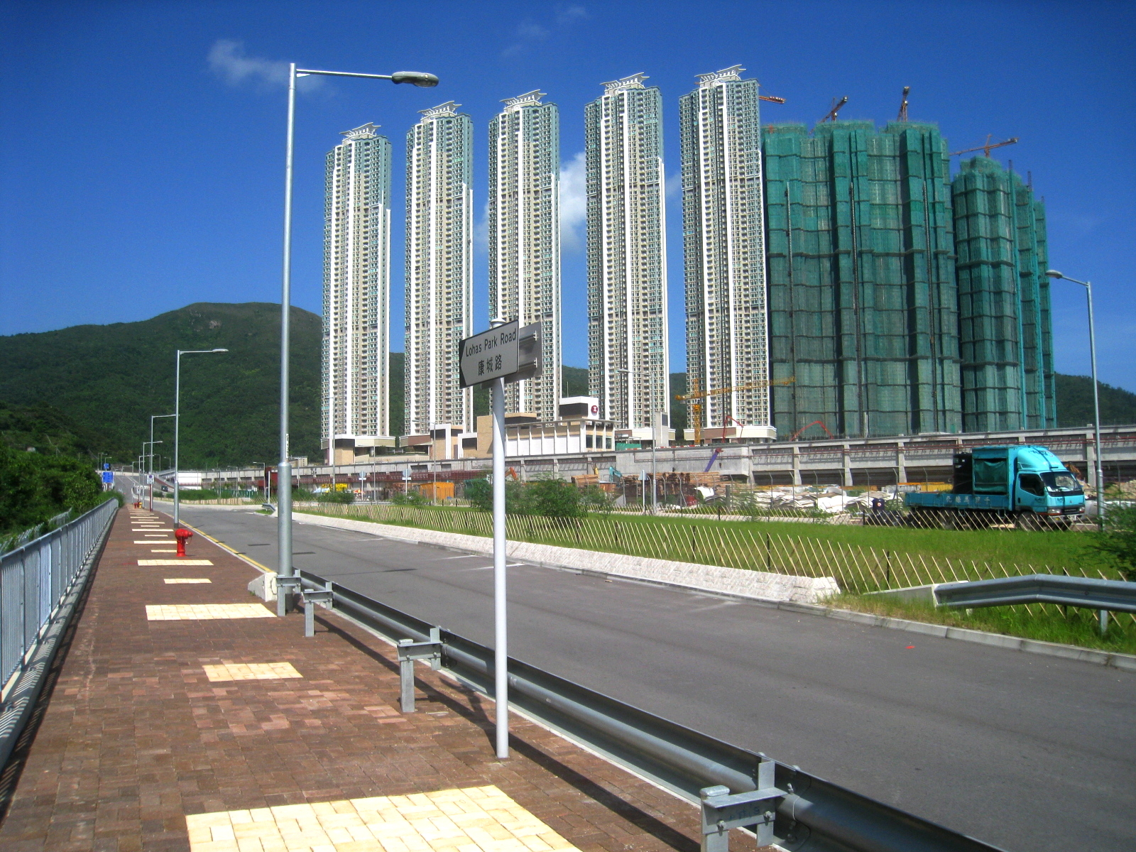 Lohas Park Road 康城路